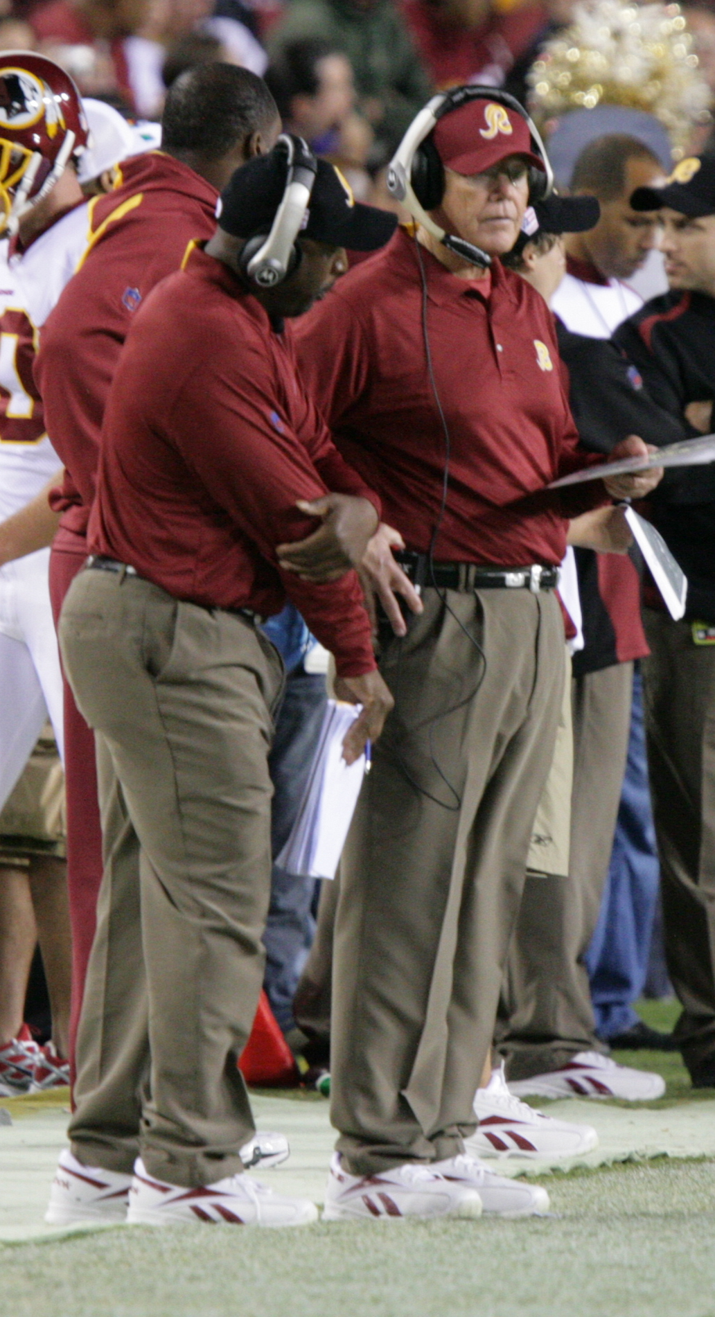 Head Coach Joe Gibbs, who coached the Redskins from 1981-1992 and then again from 2004-2007